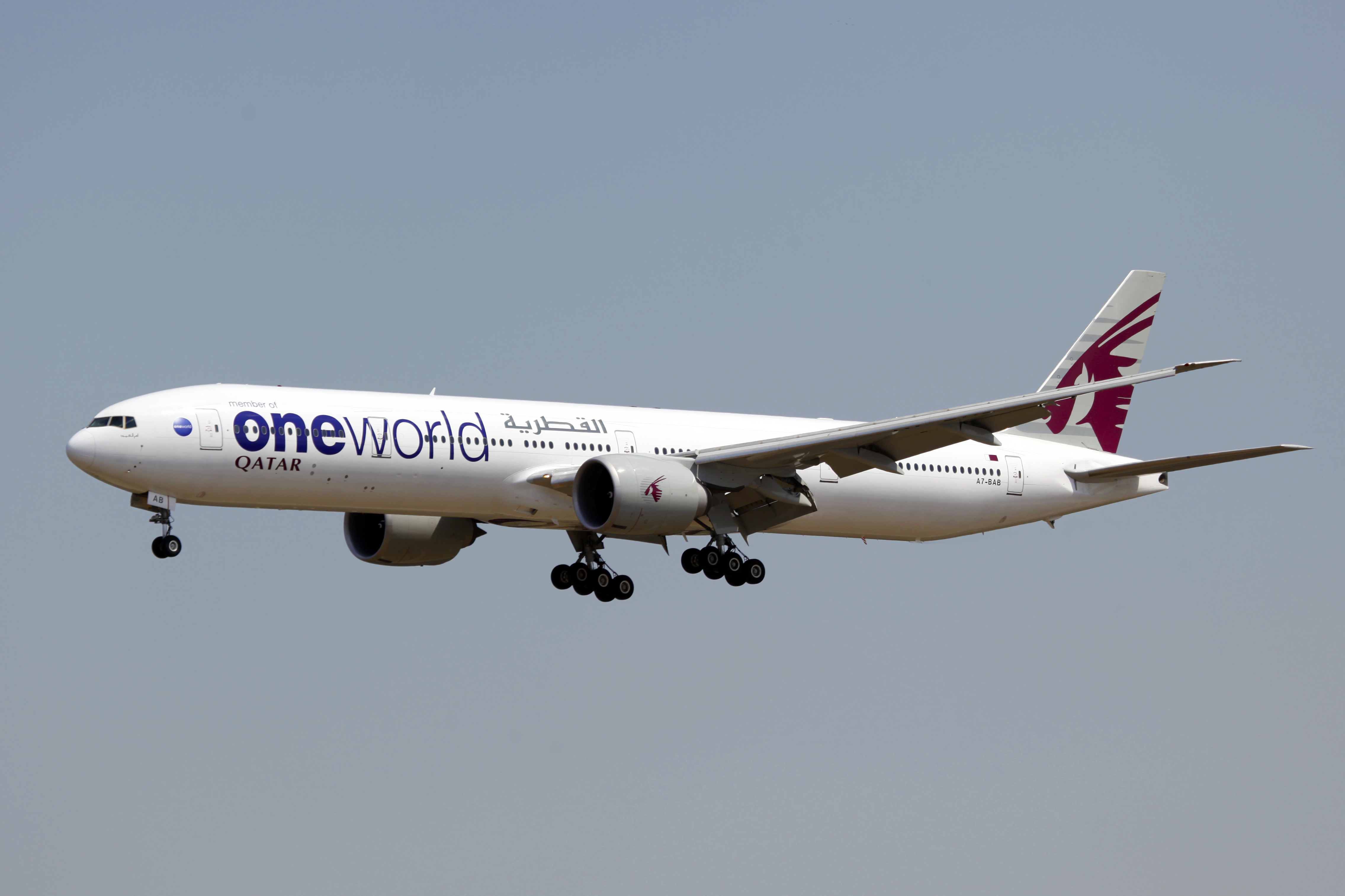 A7-BAB | Qatar Airways | Boeing 777-3DZ(ER) | Oneworld Livery | Beijing Capital International Airport [PEK]